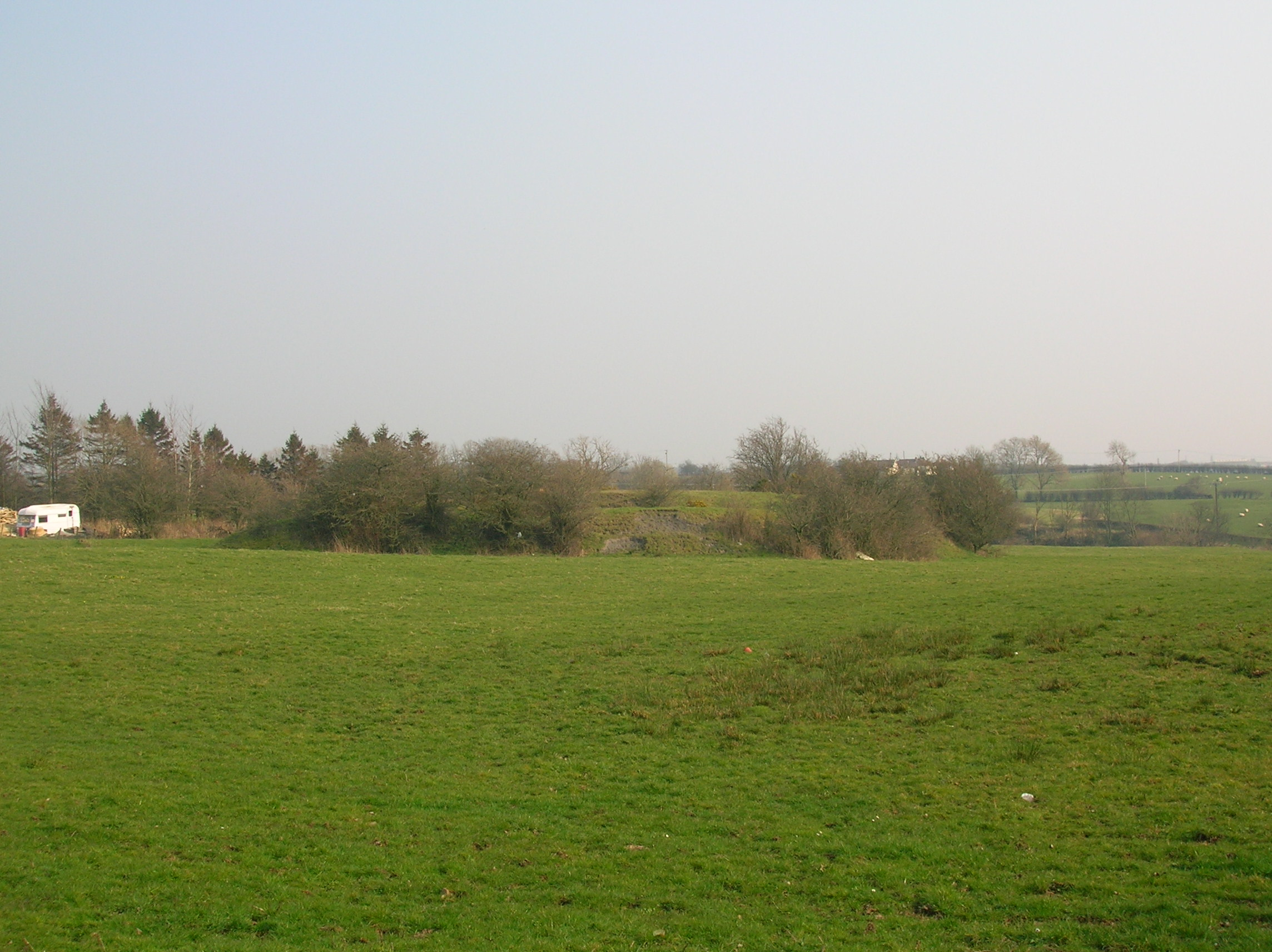 Greenhill quarry bing at Knockentiber, North Ayrshire, Scotland. 2007.